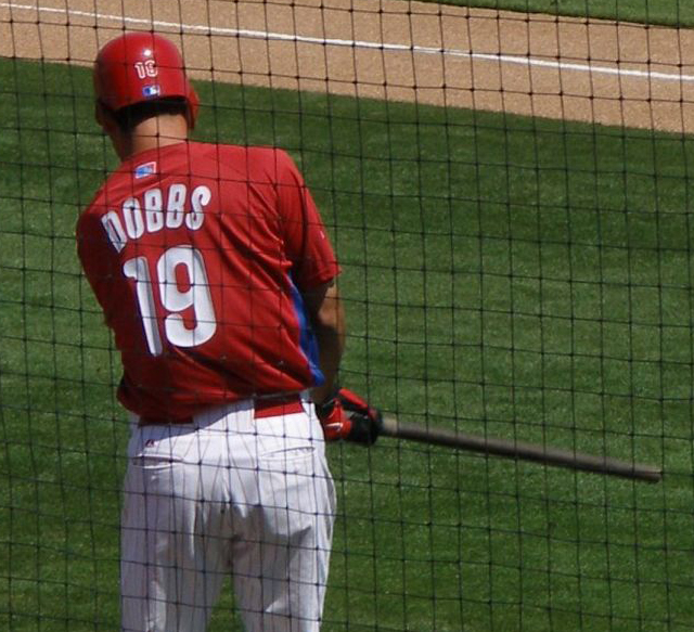 Description Greg Dobbs at bat, Spring Training 2007 Date24 March 2007Source[1]AuthorFlickr user phillymads63Permission(Reusing this file) CC-BY 23:03, 6 July 2009 . . Killervogel5 . . 640×583 (327 KB) Greg Dobbs at bat, Spring Training 2007